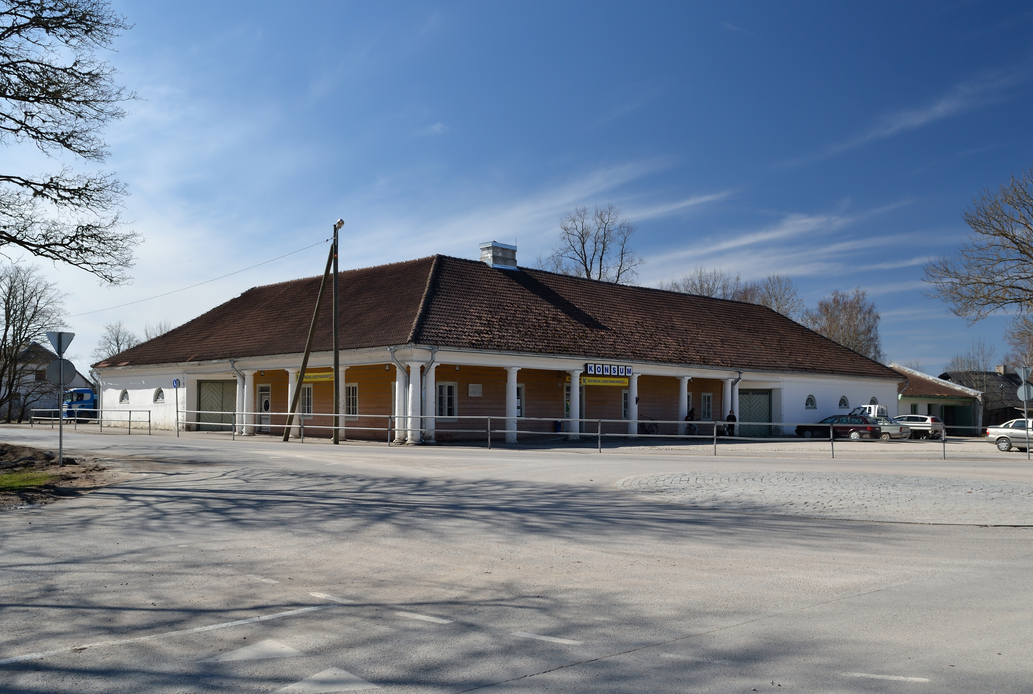 Koeru Inn